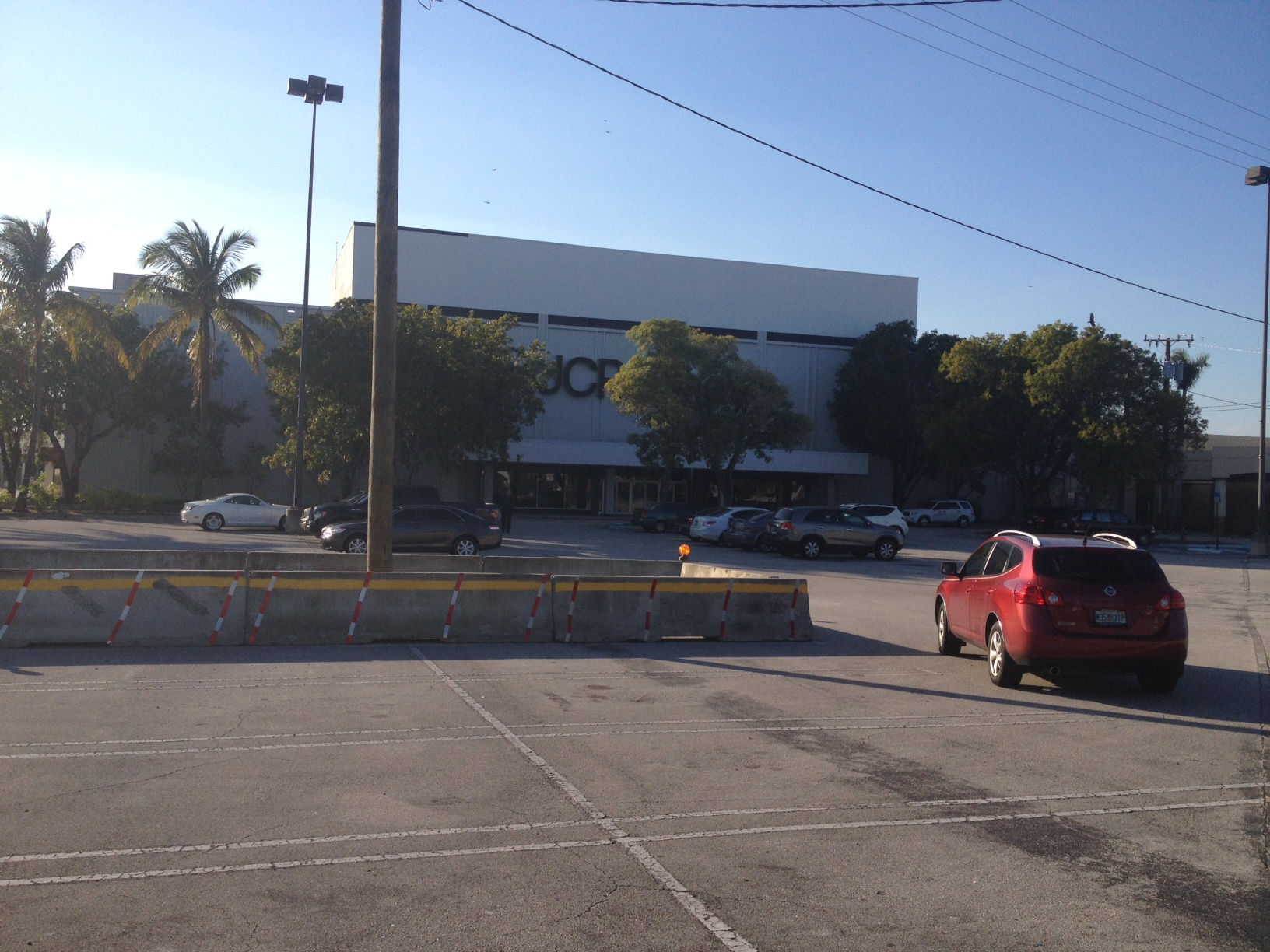 A JCPenney located at the Palm Beach Mall, opened in 1967 located in West Palm Beach ,FL